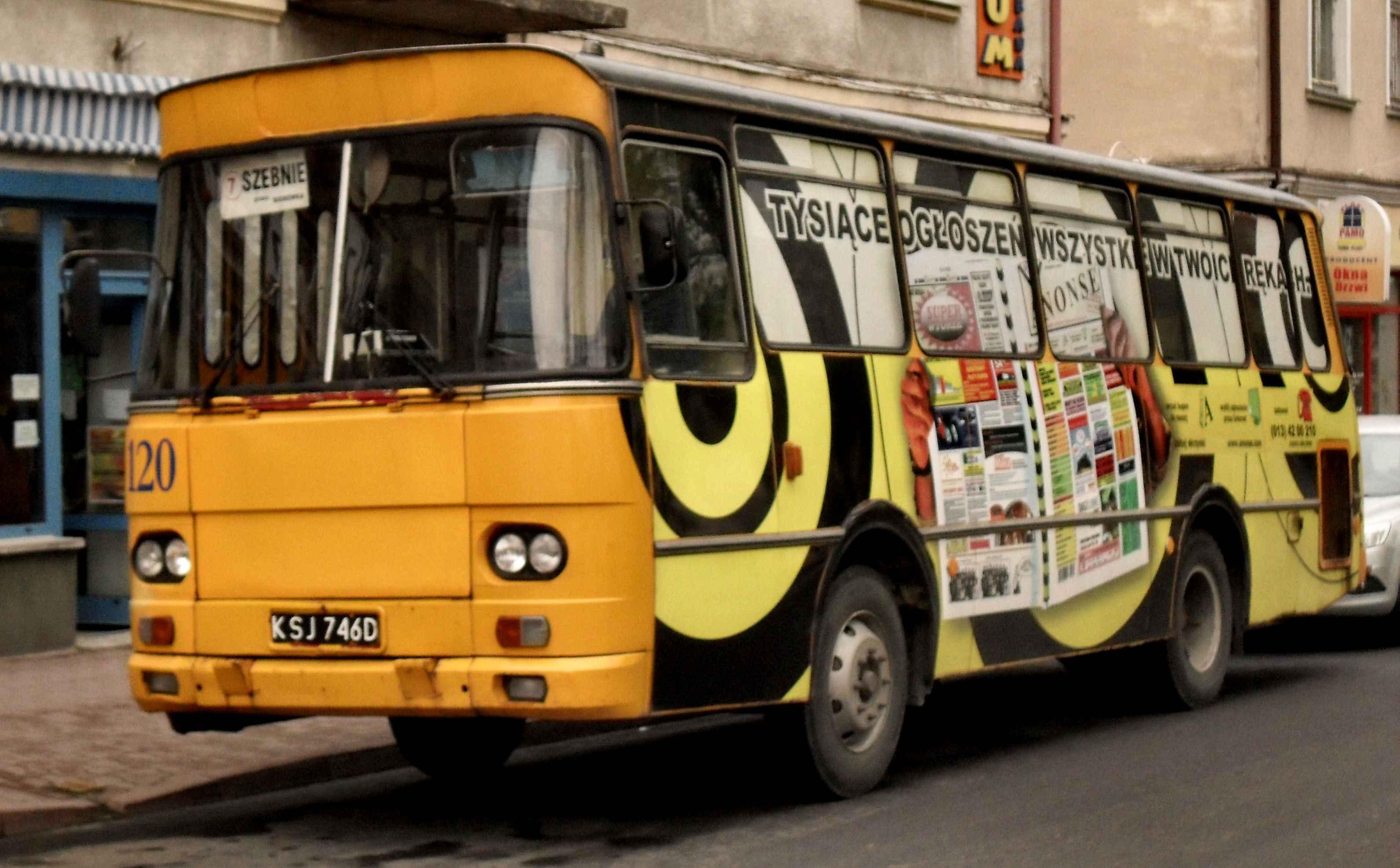 Autosan H9-35 #120 which belongs to ZMKS Jasło company. Built in 1985.